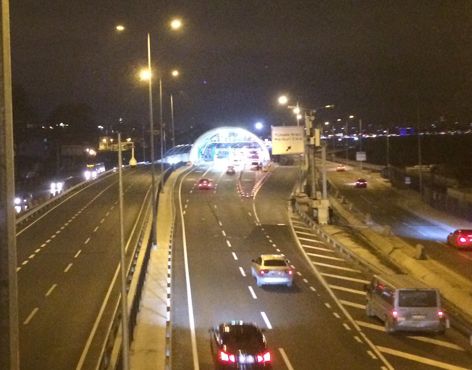 Entrance to Eurasia Tunnel on Kumkapı side